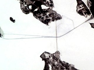 Straits of Mackinac (Michigan, USA) frozen over. The Mackinac Bridge stretches over the ice, while paths made by icebreakers cut through the ice.